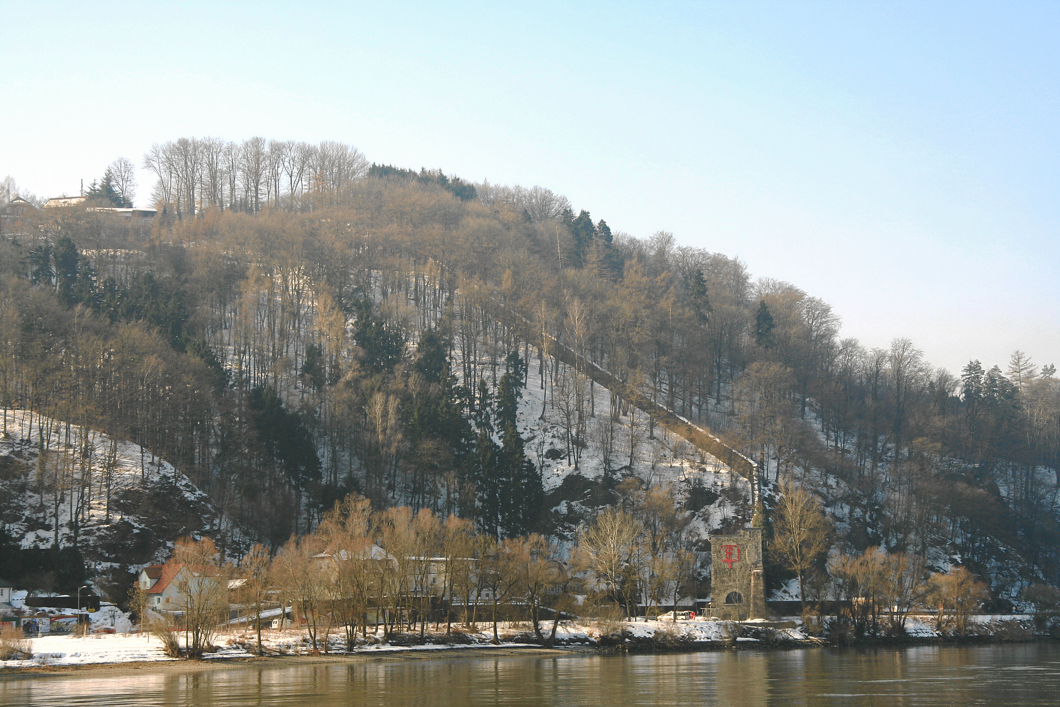 Tower (“Klause Adelgunde”) and wall (“Anschlussmauer”), part of the fortification of Linz, built in the 19th century (see article in German Wikipedia. The river in front is the danube.